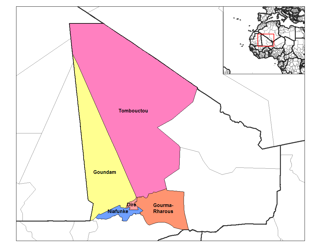 Map of the cercles of Tombouctou region in Mali. Created by Rarelibra 15:33, 18 September 2006 (UTC) for public domain use, using MapInfo Professional v8.5 and various mapping resources.